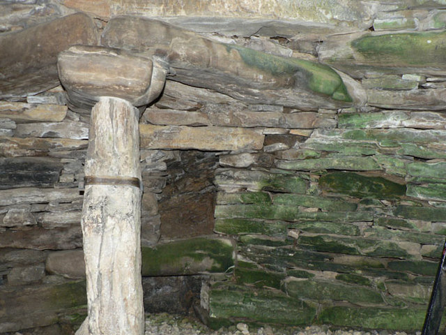 Support Column & cupboard Inside the Renniebister Souterrain, showing storage cupboards, these were around the walls, built into them, very dry & cool inside, and stonework looks amazingly solid